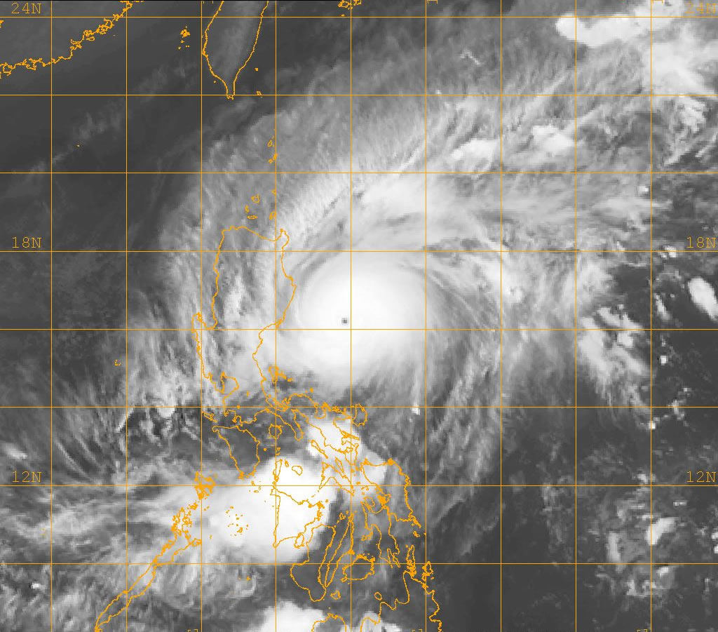 Typhoon Chebi at its peak on 10 November 2006 (Image taken at 2030 local time).